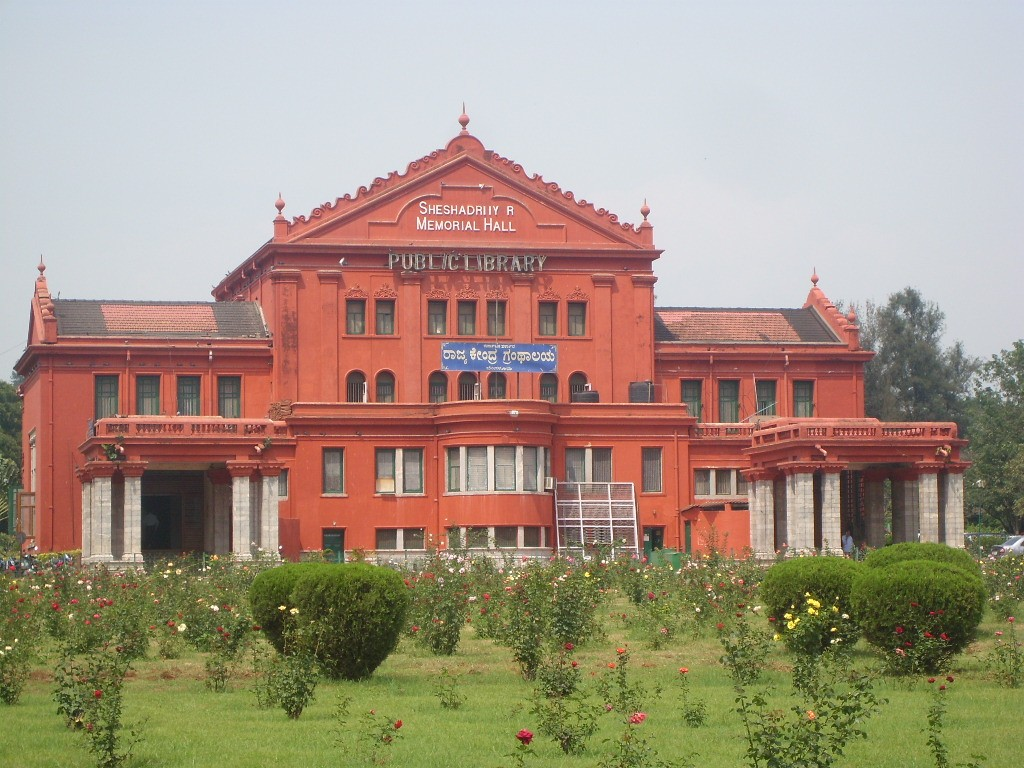 Sir Seshadri Iyer Memorial Library, Cubbon Park, Bangalore